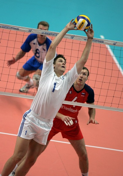 Finland setter Simo-Pekka Olli passing in European league final 2005.